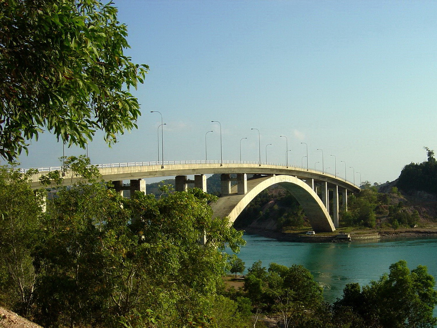 Barelang arch bridge (Indonesia)